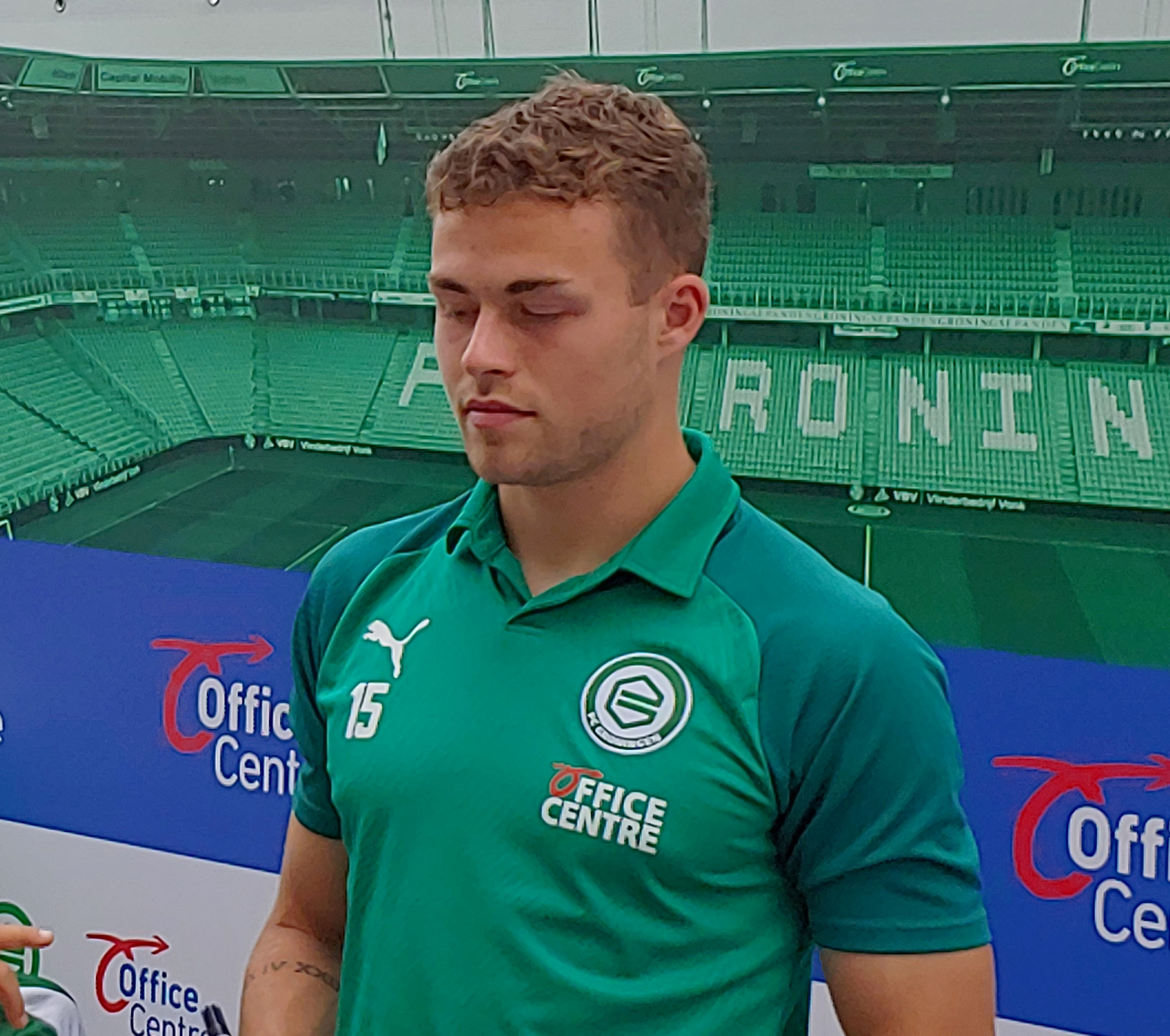 Gabriel Gudmundsson at FC Groningen